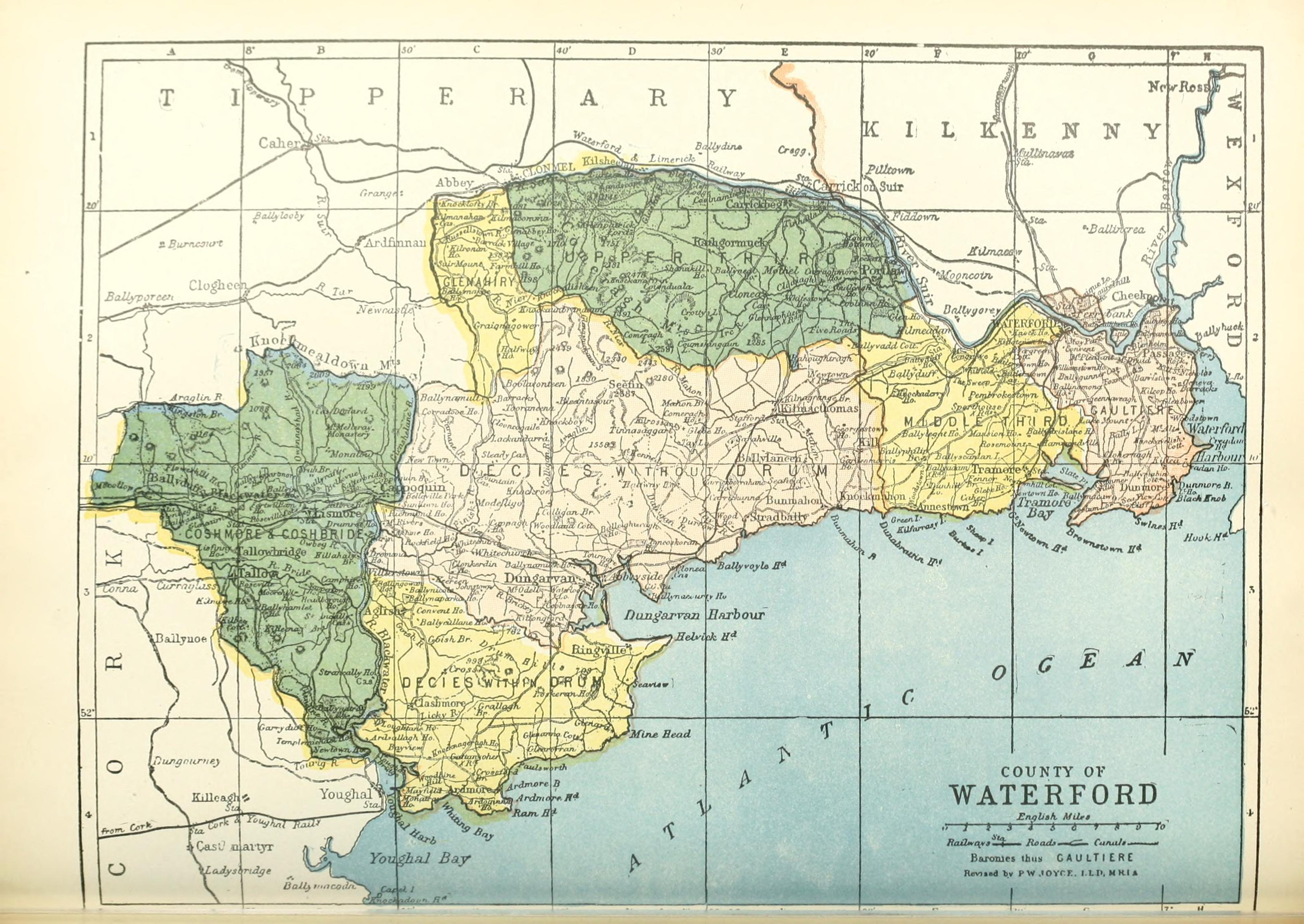 Map of the baronies of County Waterford in Ireland; taken from Atlas and cyclopedia of Ireland, p.287